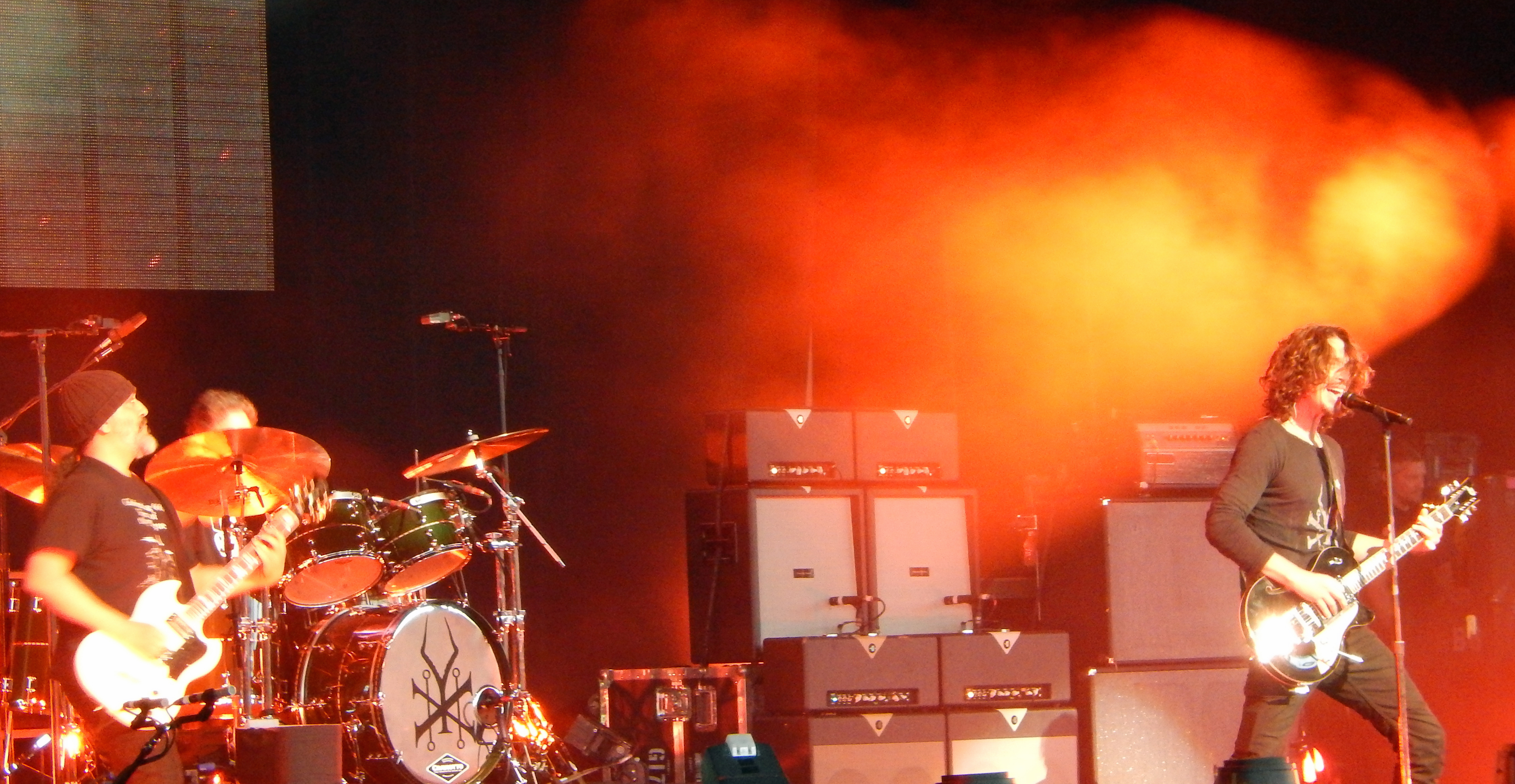 Soundgarden live at 2014